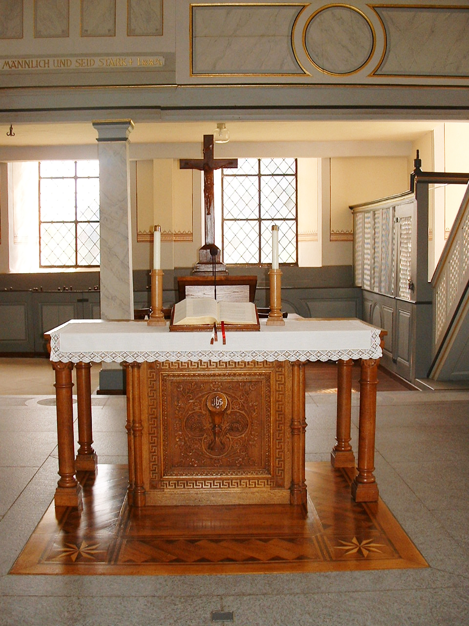 Protestant Church Kleinich